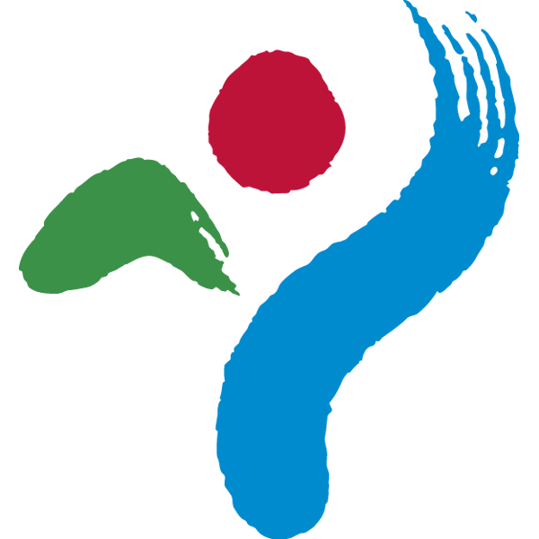 Seal of Seoul